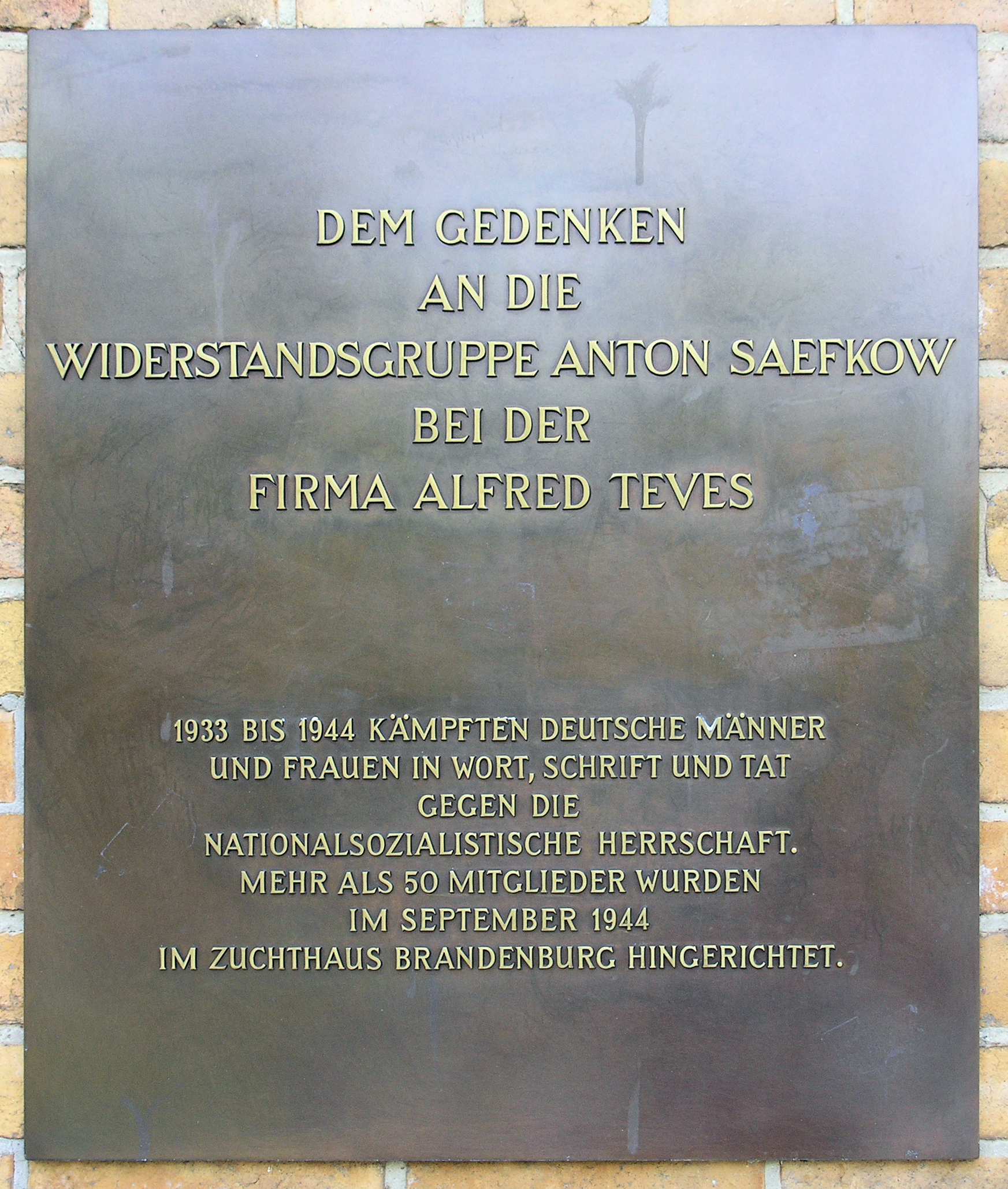 Memorial plaque, Saefkow-Jacob-Bästlein Organisation at the Alfred Teves Company, Hermsdorfer Straße 14, Berlin-Wittenau, Germany